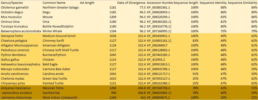 ortho